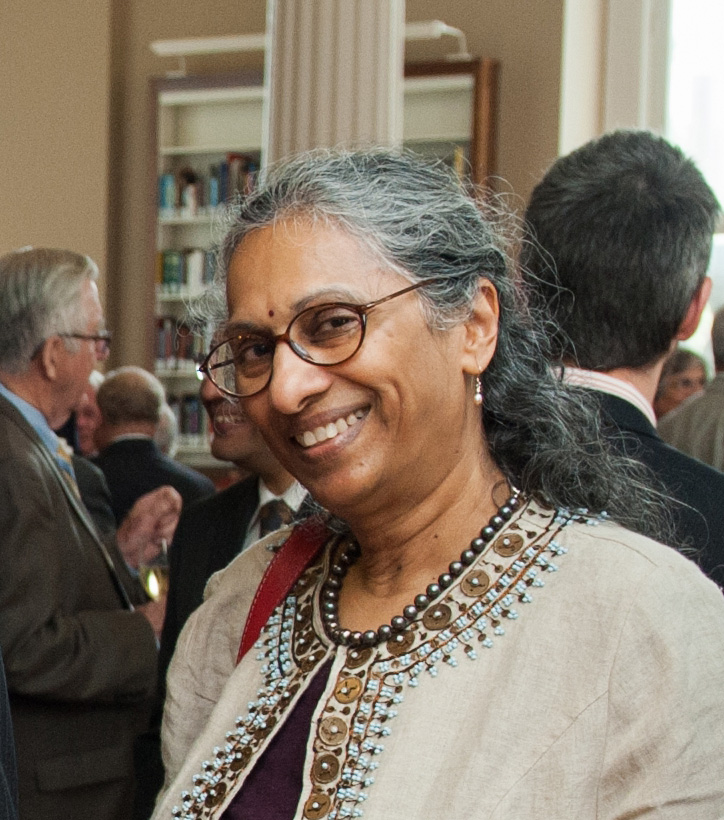 Photograph of chemist Seetha Coleman-Kammula, founding partner of Simply Sustain LLC, at the Chemical Heritage Foundation, 15 May 2014.